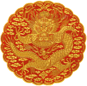 Joseon Dynasty Coat of arms.